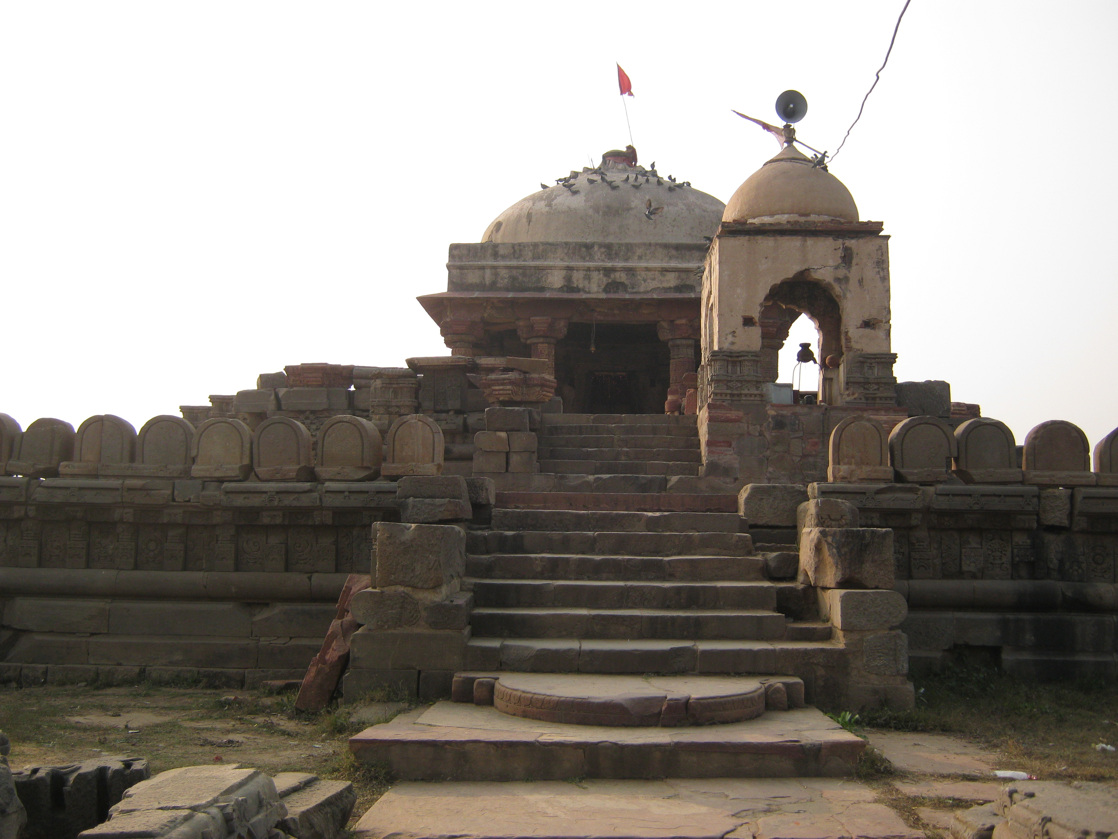 Harshad Mata Temple